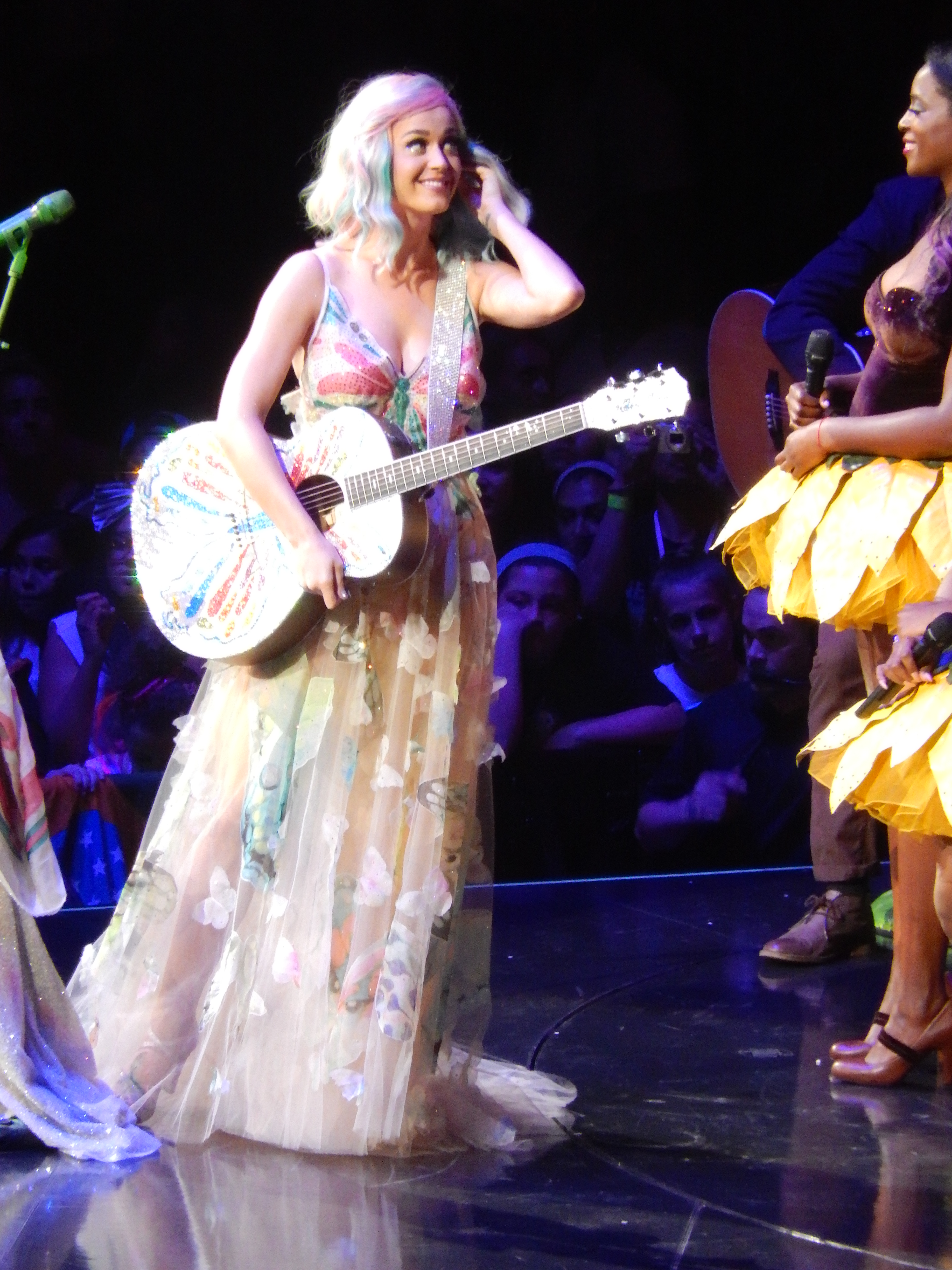 Katy Perry performing at the Prudential Center in Newark, New Jersey on July 11, 2014.